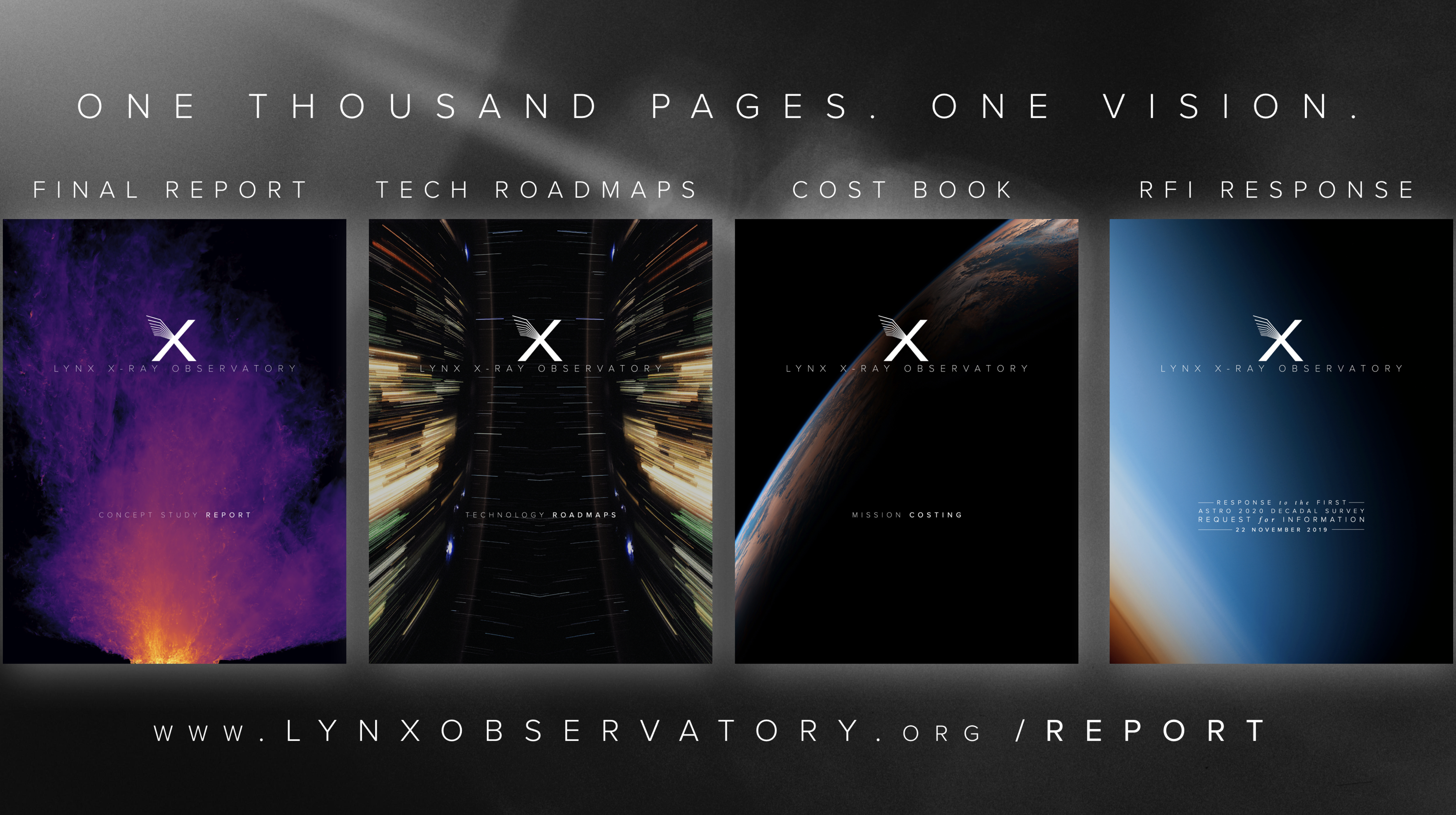 A banner showing the four Lynx X-ray Observatory final report components